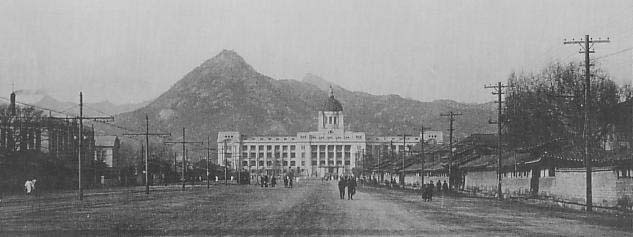 The former Japanese colonial General Government Building in Korea. Kokamon-Dori — present-day "Sejongno"; demolised 1996.